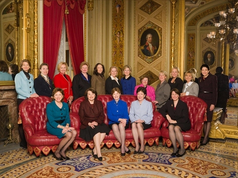 Portrait of the 17 female United States Senators as of March 2009.